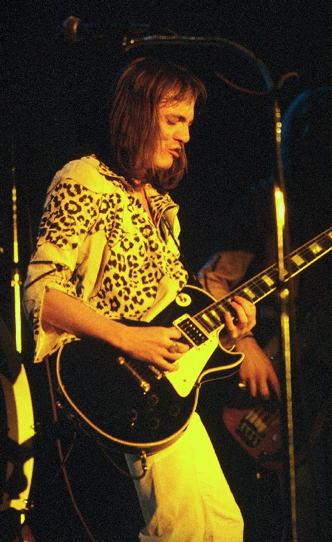 Steve Marriott of the band Humble Pie, in concert in Chicago, Illinois, USA